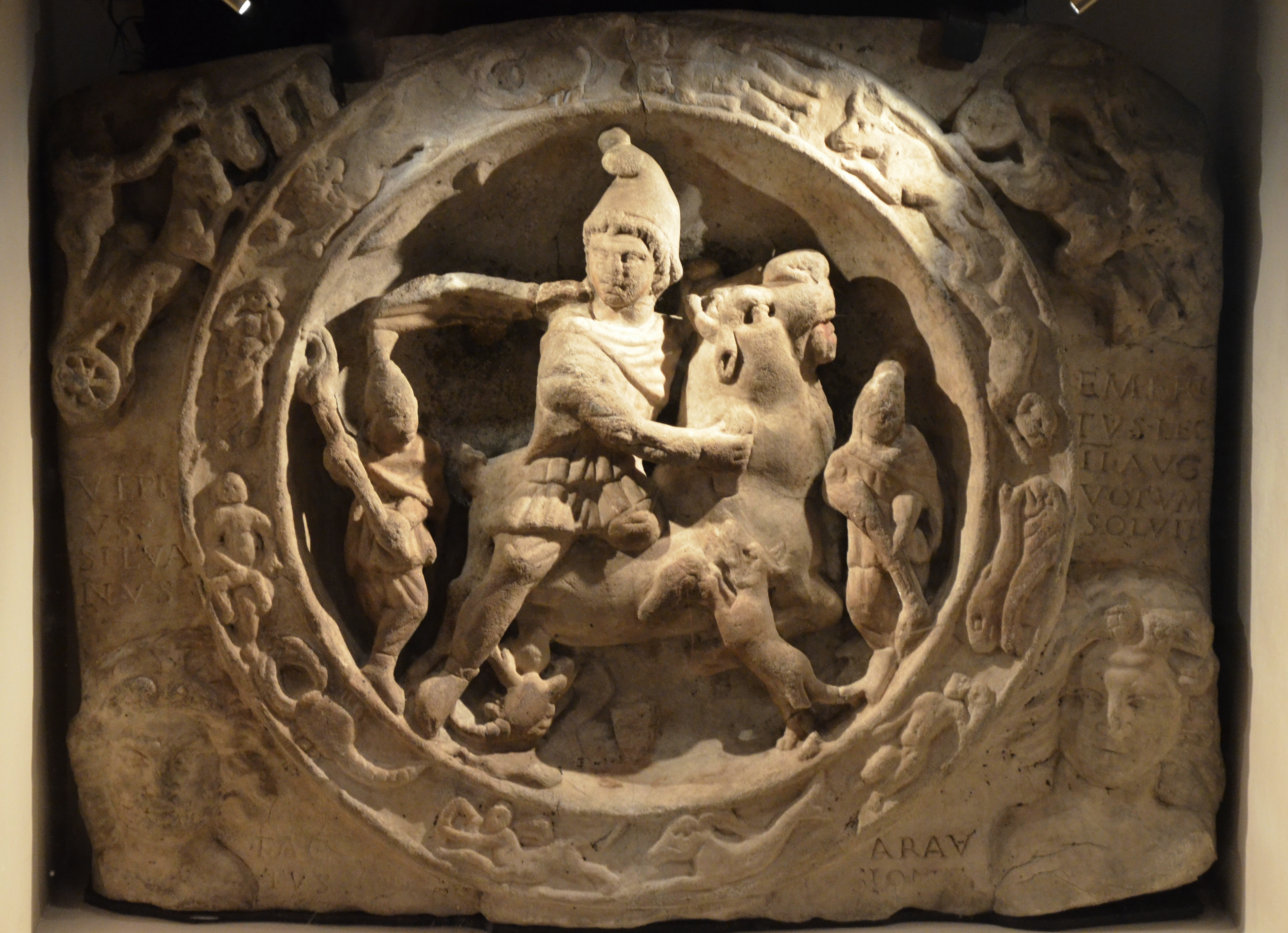 The central medallion depicts a bull-slaying scene. Around the border are 12 signs of the zodiac. The sun ('Sol') and moon ('Luna') are depicted in the top corners, the two wind gods in the bottom. The inscription indicates that "Ulpius Silvanus, initiated into a Mithraic grade at Orange, France, paid his vows to Mithras". This was perharps by building a temple to Mithras in London. Ulpius Silvanus / factus Arausione / emeritus leg(ionis) II aug(ustae) / votum solvit.